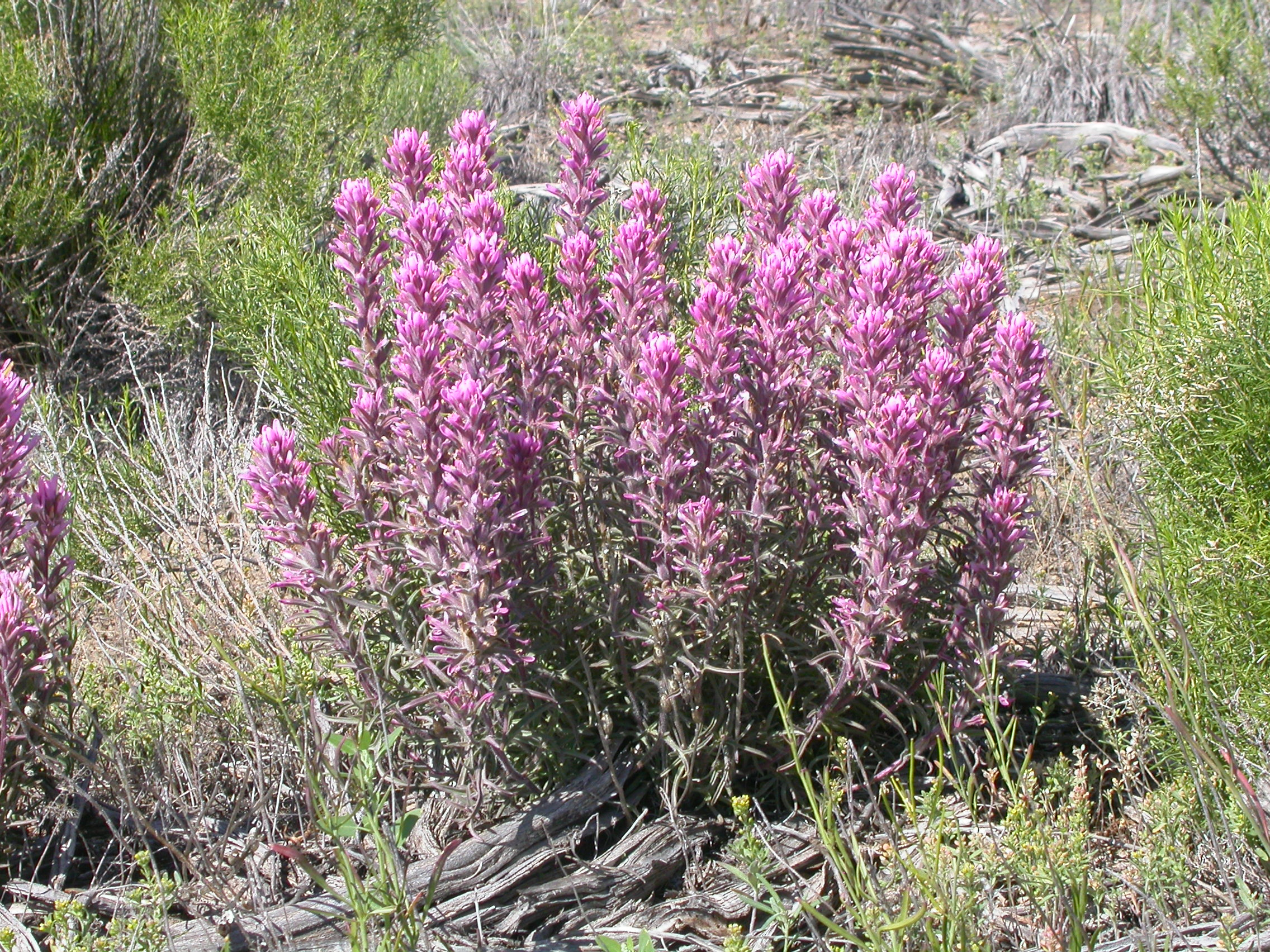 This paintbrush is one of the most common forbs in the sagebrush country of this part of Idaho from lowland to upland steppe settings.